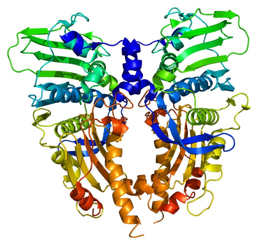 Structure of the TOP2A protein. Based on PyMOL rendering of PDB 1zxm.